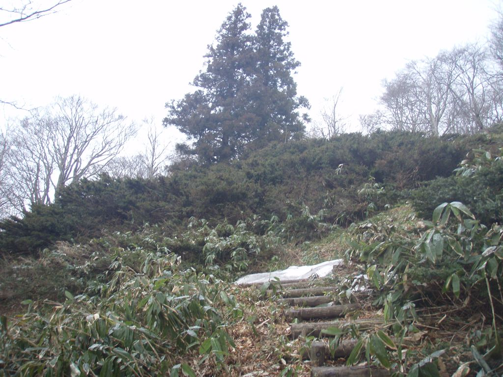 Texus cuspidata of Mt.Sentsuzan